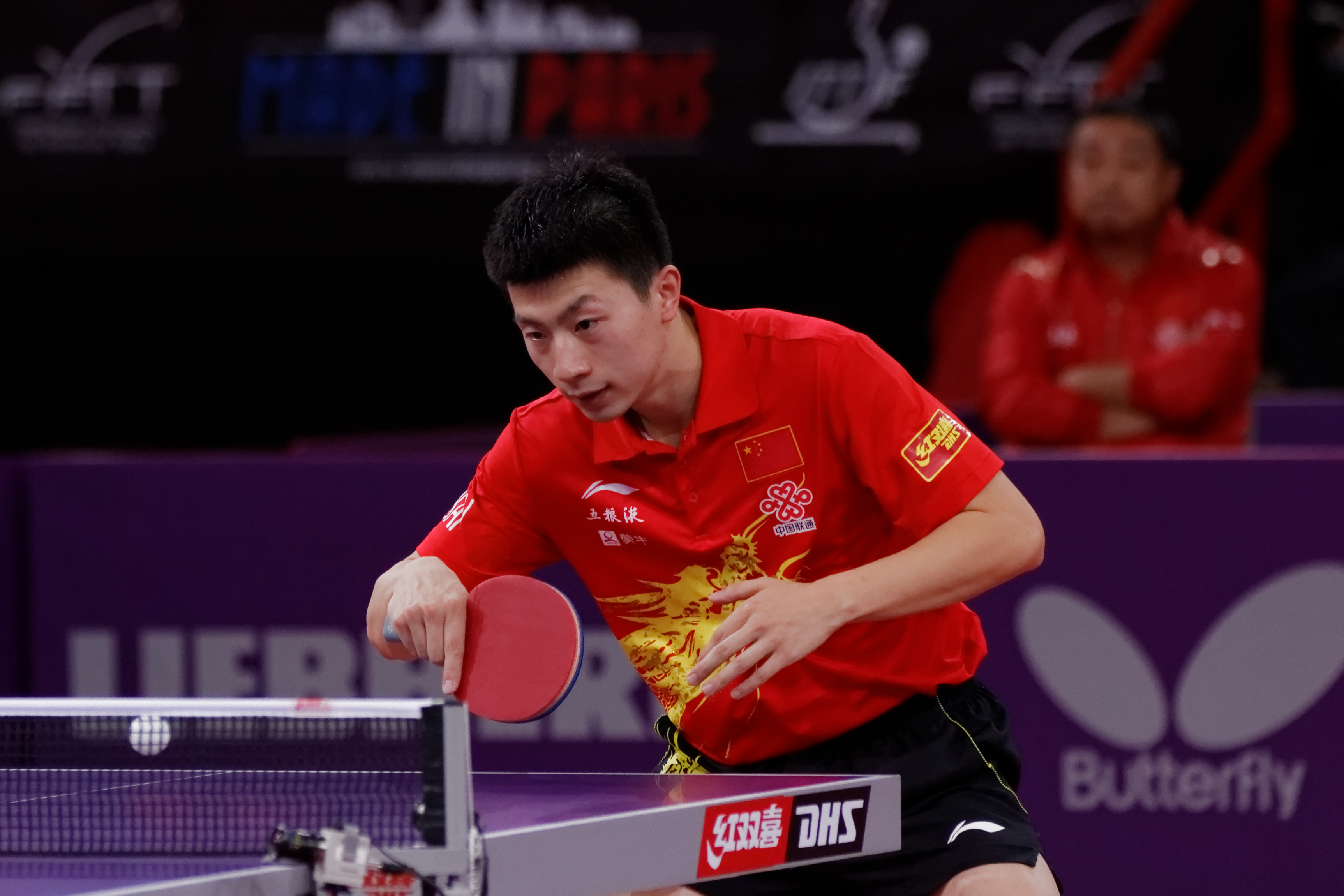 2013 World Table Tennis Championships, Paris. Men's Singles Round 4. Ma Long vs Koki Niwa.